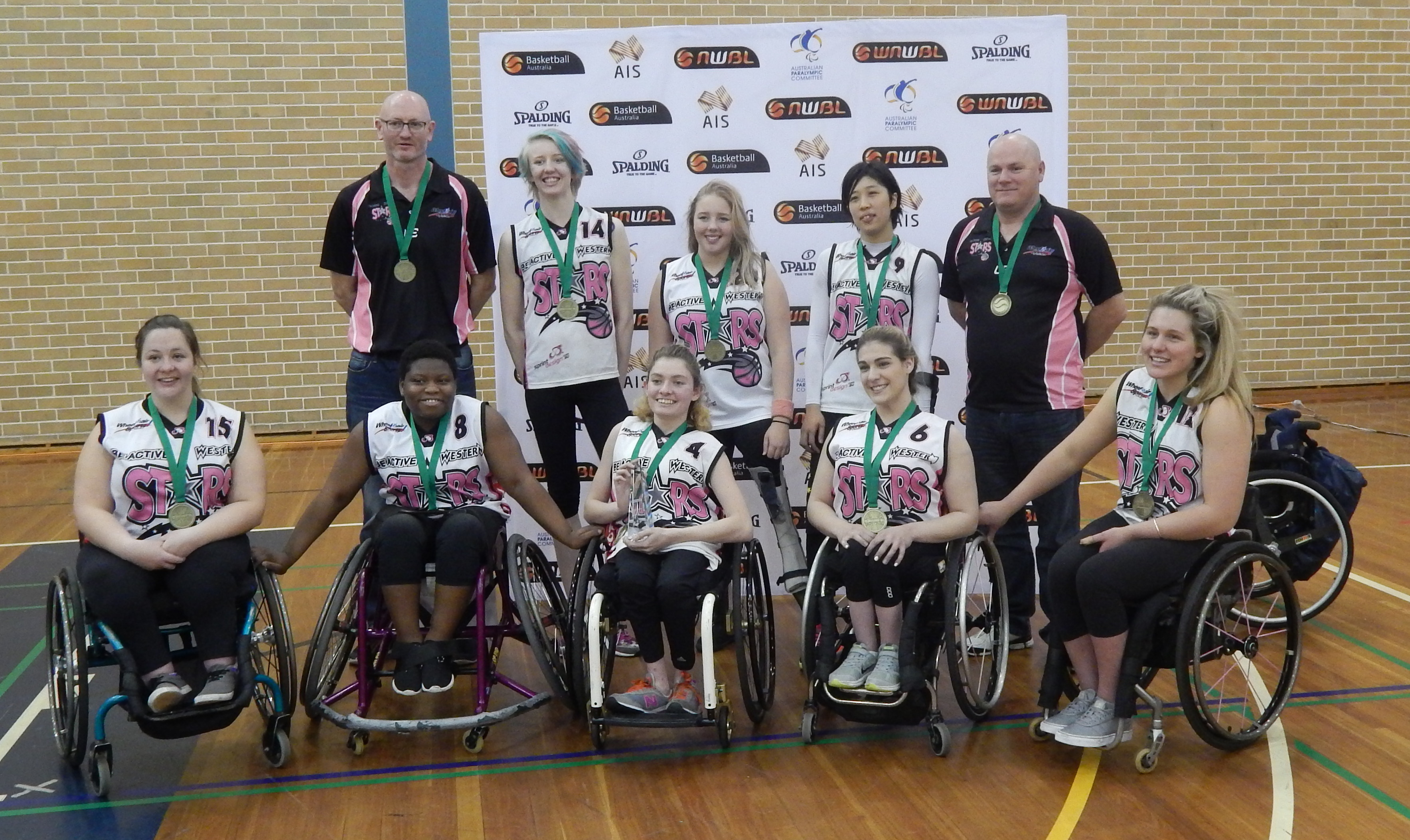 The Be Active Western Stars win the 2016 WNWBL Championship. Front row, left to right: Natalie Alexander, Mary Friday, Tasha Ovens, Sarah Vinci, Georgia Inglis. Back row, left to right: Stephen Charlton (head coach), Amber Merritt, Anneka Bodt, Chichiro Kitada, Stephen Connell (assistant coach)